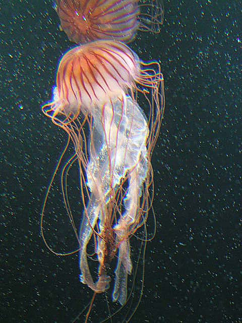 Jellyfish